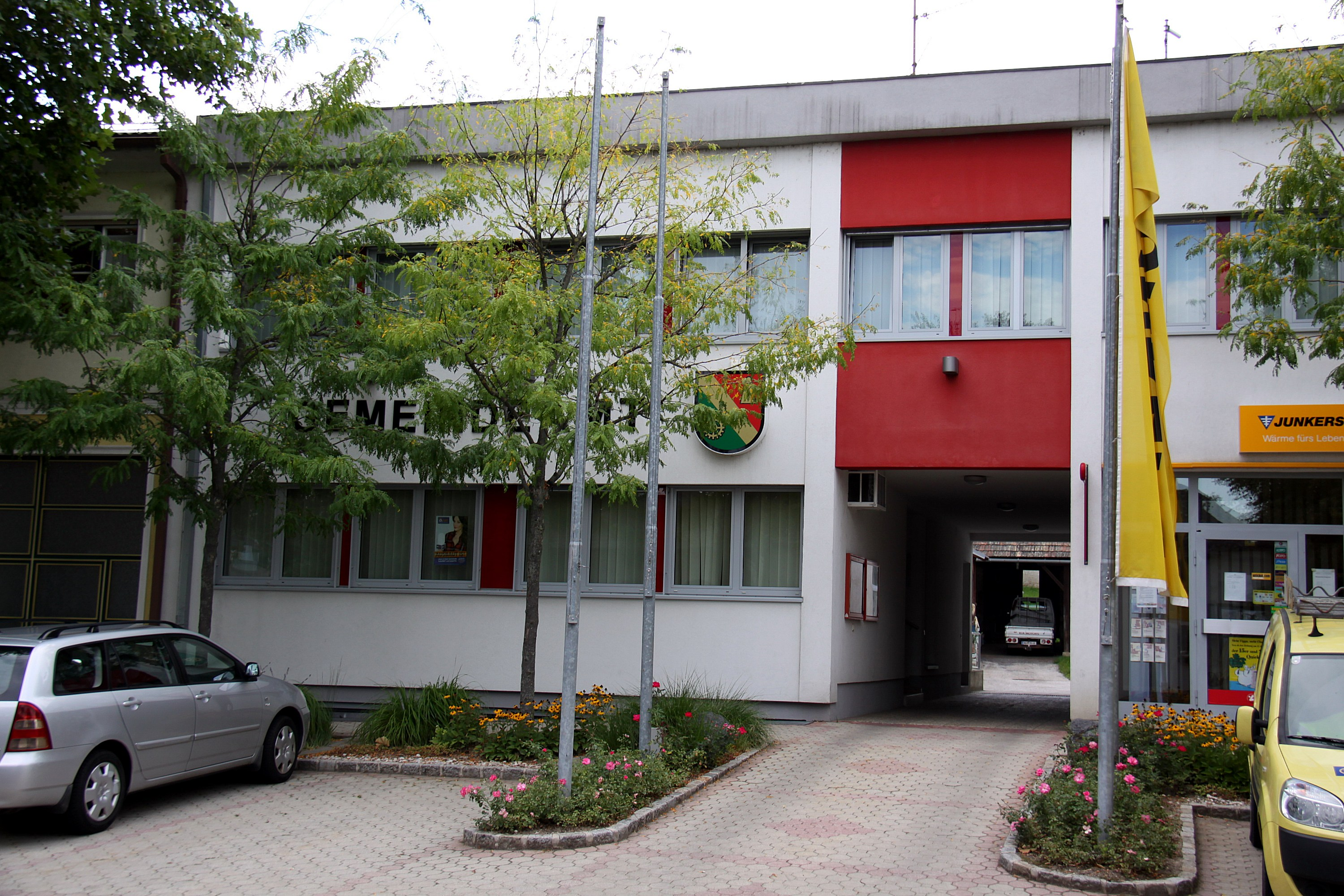 Municipal office - Hirm Object location 47° 47′ 14.66″ N, 16° 27′ 22.7″ E This and other images at their locations on: Google Maps - Google Earth - OpenStreetMap - Proximityrama(Info)